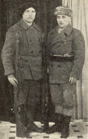 1918 Finnish Civil War. Two members of the famous Red Guard unit "Jyryn komppania" composed of the Jyry Helsinki Sports Club athletes.